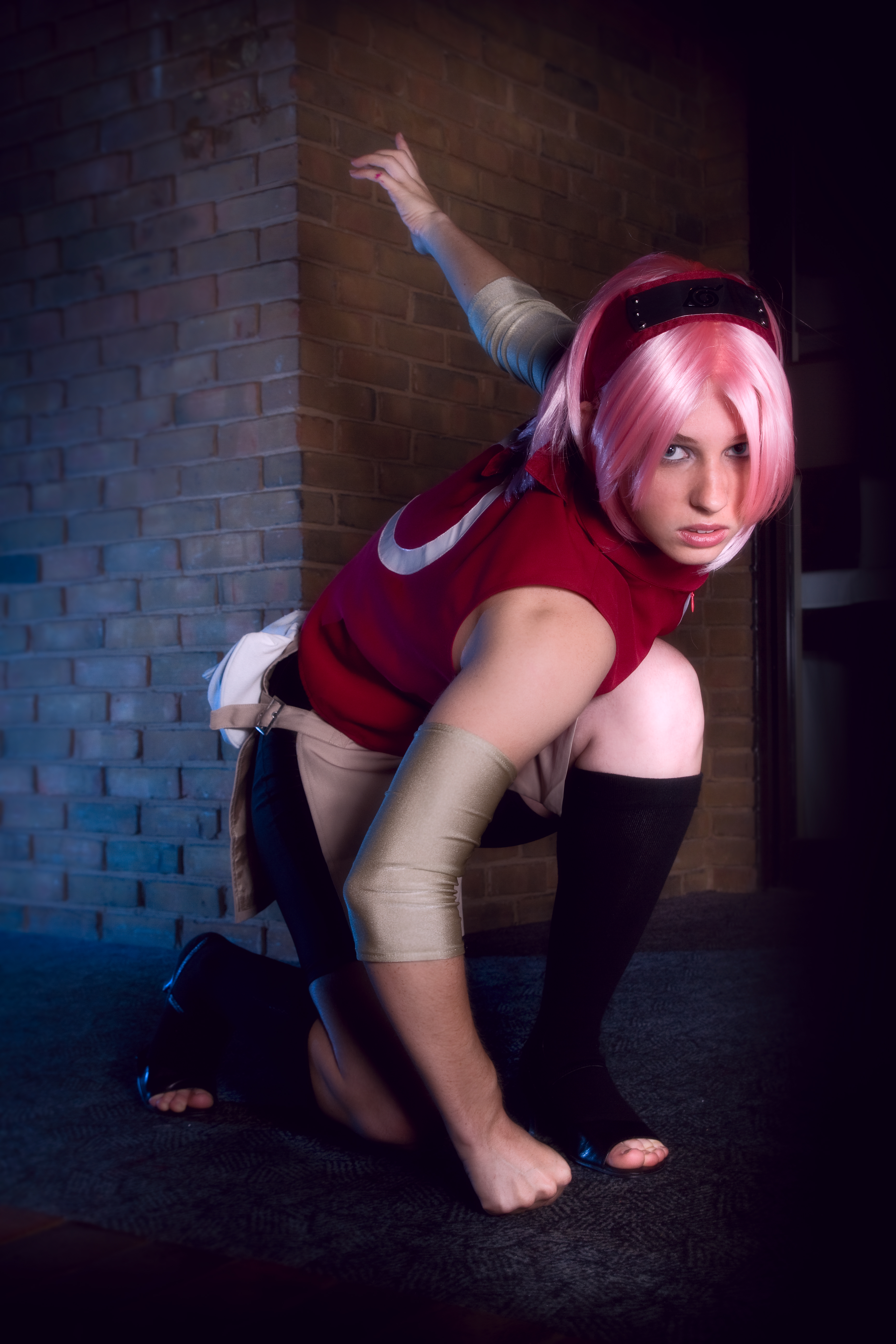 Haruno Sakura cosplayer